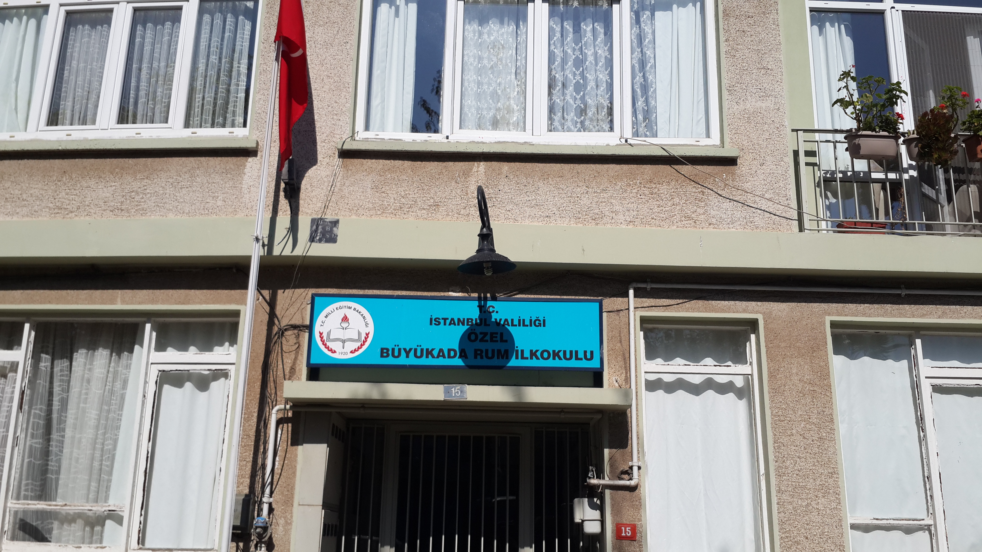 The Rum (Greek) private primary school at Büyükada, Istanbul